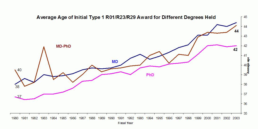 The graph describes the average age of researchers receiving NIH funding for three types of grants. The trend is an increase. MD stands for Doctor of Medicine, PhD for Doctor of Philosophy. Contents 1 Source 2 Licensing 3 Original upload log 4 Original upload log Source US Government public graph. Original file (Powerpoint slide): Original author: Norka Ruiz Bravo, PhD, Deputy Director for Extramural Research, NIH Converted to gif from a screen snapshot using IrfanView 3.98. Original title (cropped out): First Major Independent Research Support Occurs at an Ever-Later Age. Granted permission for reproduction in Wikipedia from source web page webmaster in February 2006.